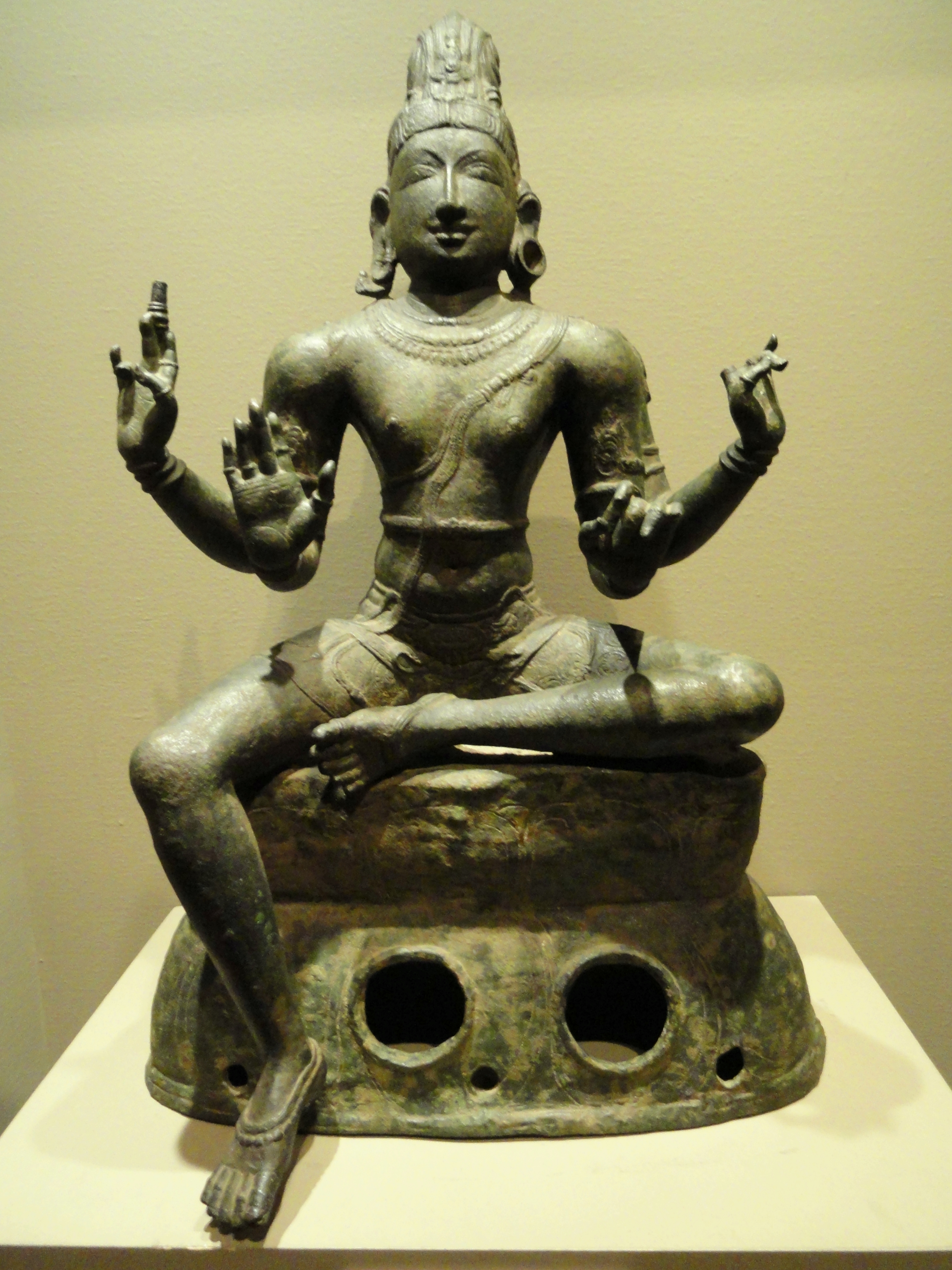 Exhibit in the Nelson-Atkins Museum of Art, Kansas City, Missouri. This artwork is old enough so that it is in the public domain, and the museum permitted photography without restriction. I took this photograph and release it into the public domain.